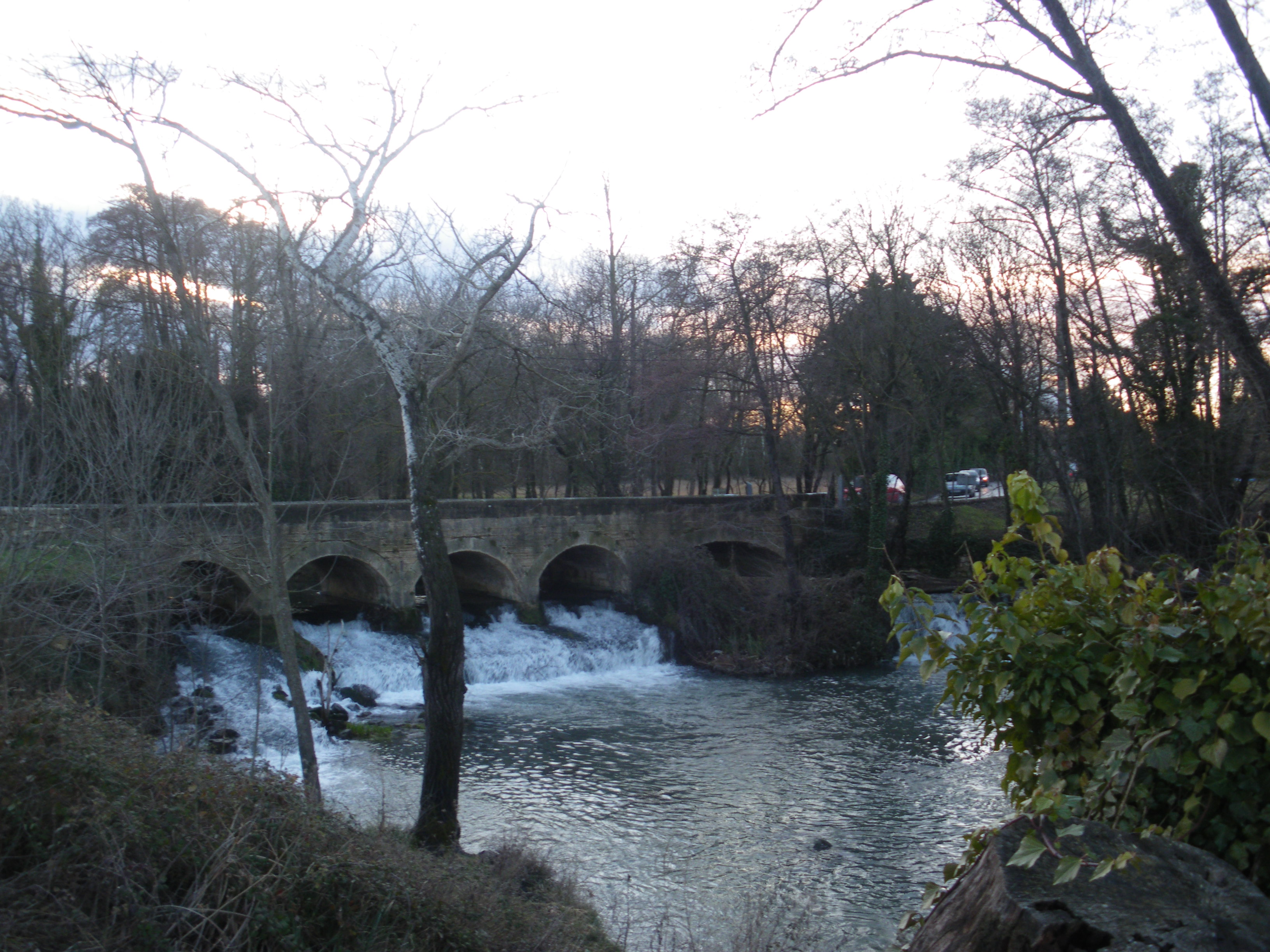 Avocat bridge, across Sorgue River, near Velleron, Vauluse, France